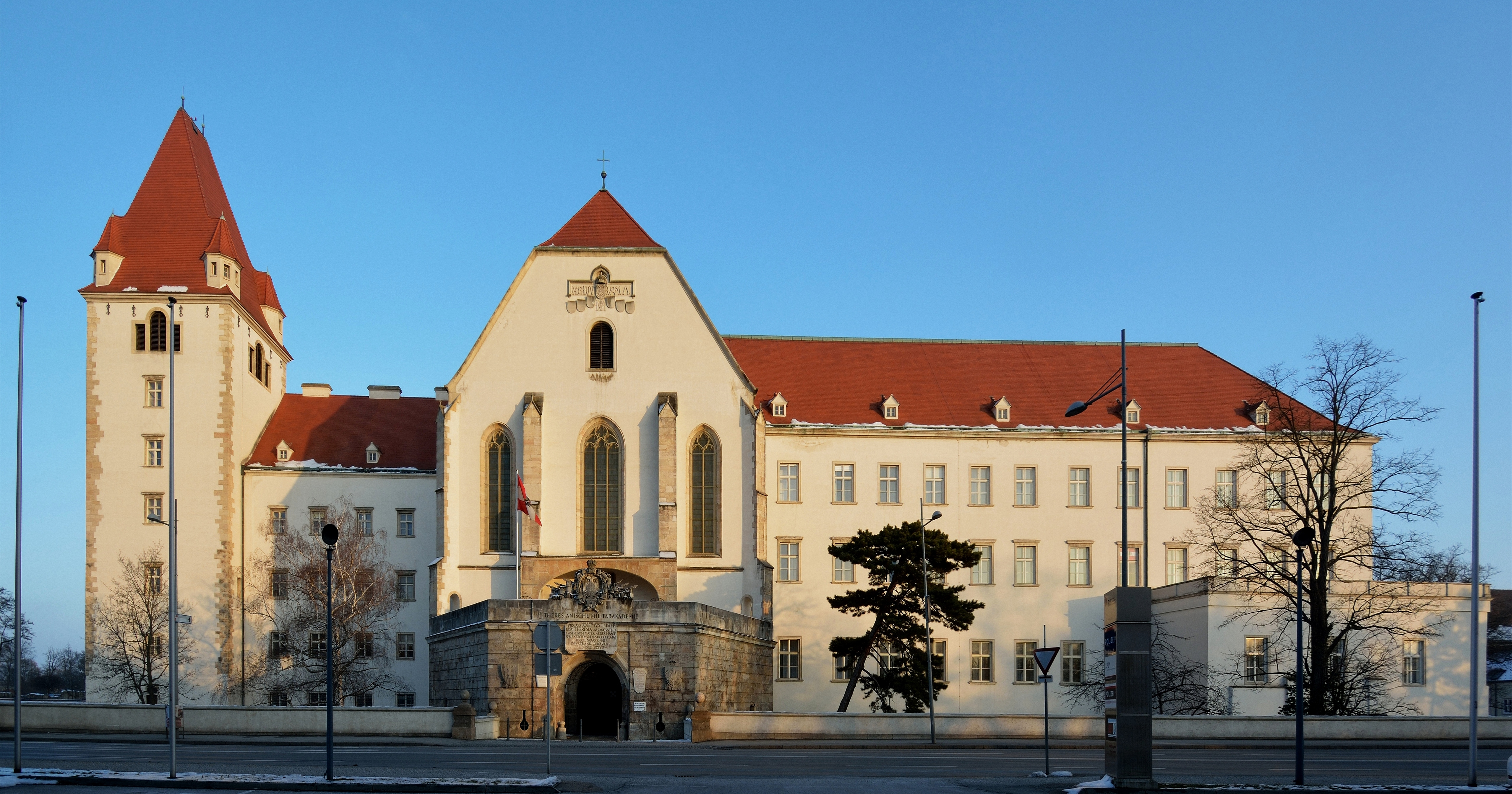 Theresianische Militärakademie at Wiener Neustadt, Lower Austria